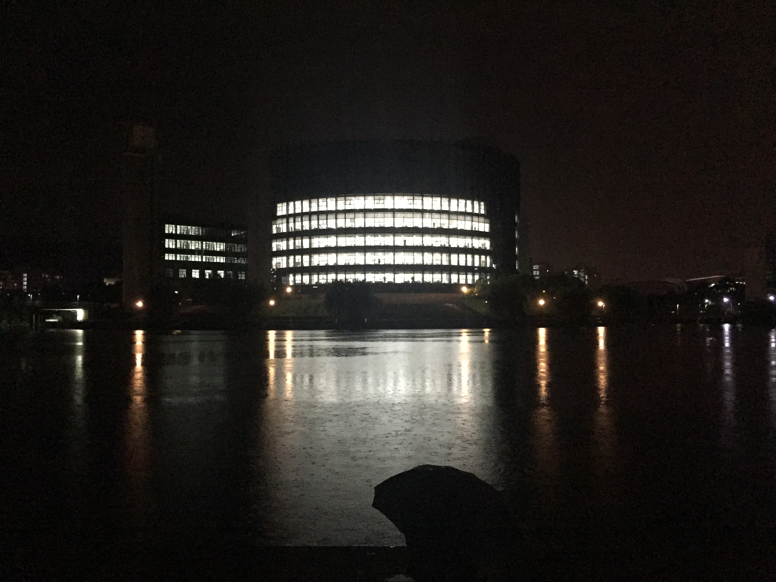 中国矿业大学 南湖校区 图书馆